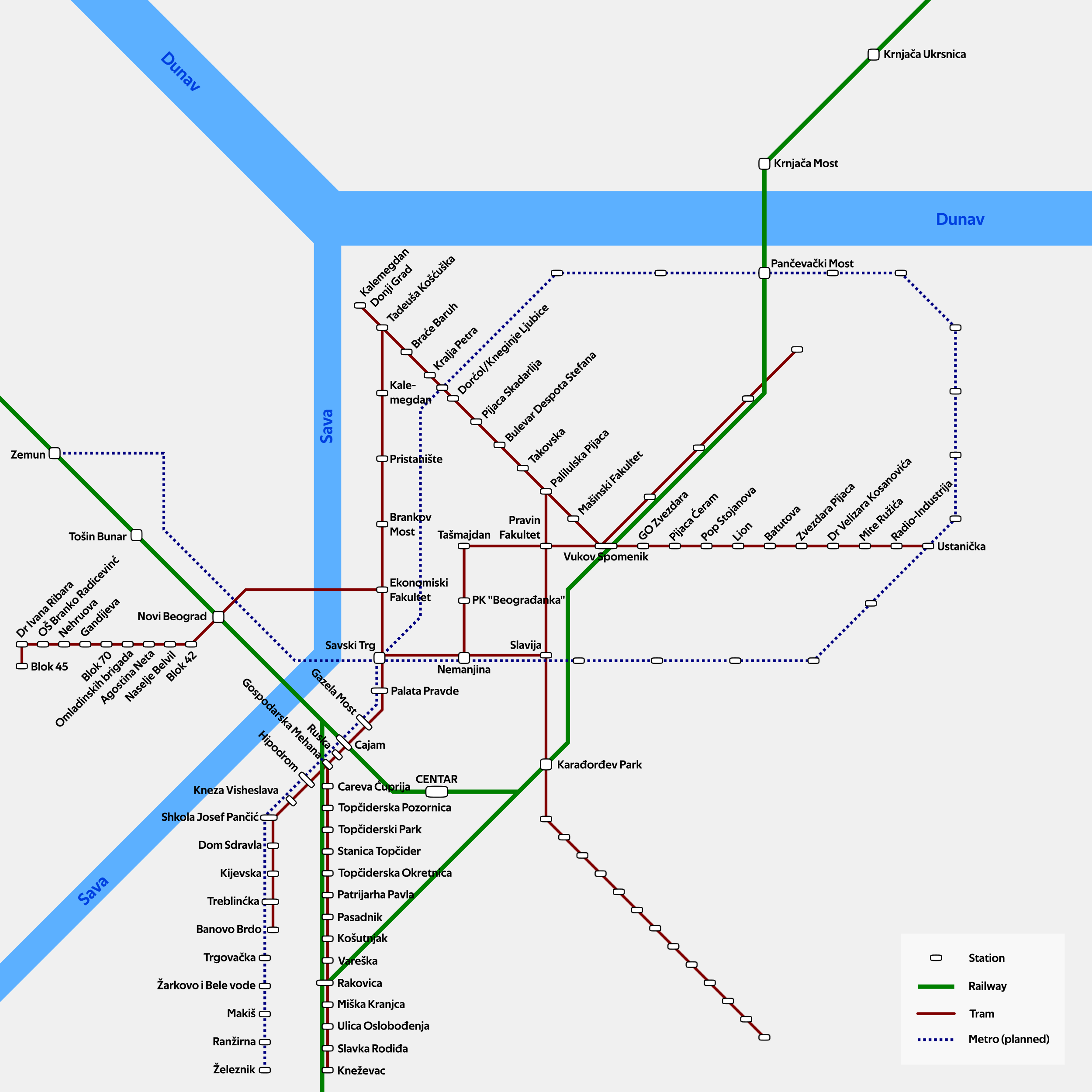 Transit map of Belgrade